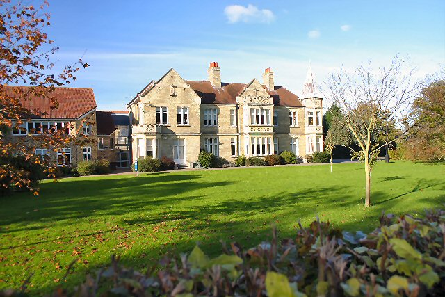 Soham Village College, near to Soham, Cambridgeshire, Great Britain. This is the main building of Soham Village College, a state secondary school. It was the home of Charles Moreby and built in 1901. The school moved there in 1925 having originated in 1686. The school is comprised of several buildings on two adjacent sites.